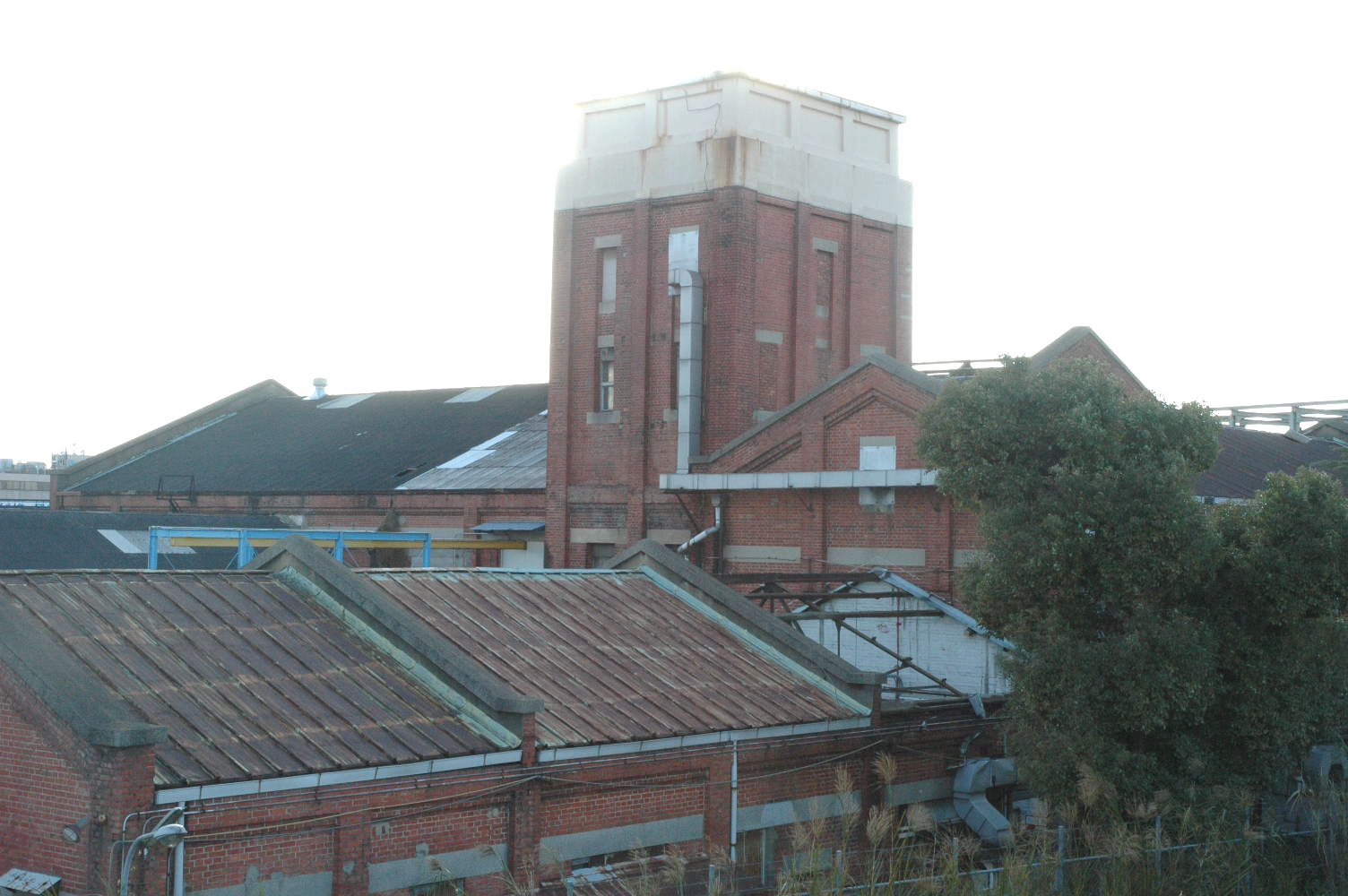 Old Daicel Chemical Industries Sakai Factory(Designed by Shogoro Shige,Built in 1910,Broken down in 2008)